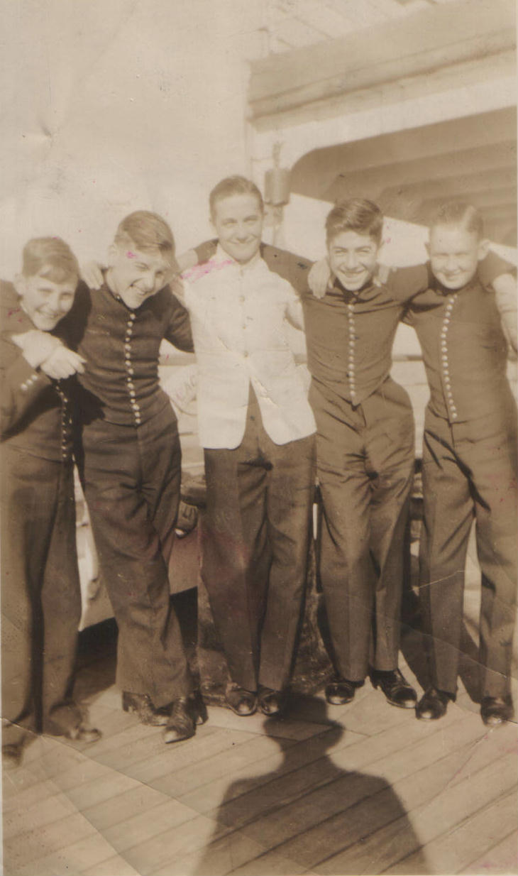 Cabin Boys on Laconia. John L Bradley on right aboard Laconia.jpg some time between `2/11/1937 and 4/9/1938. Previously worked for Cable and Wireless joined RAF 22nd Aug 1939